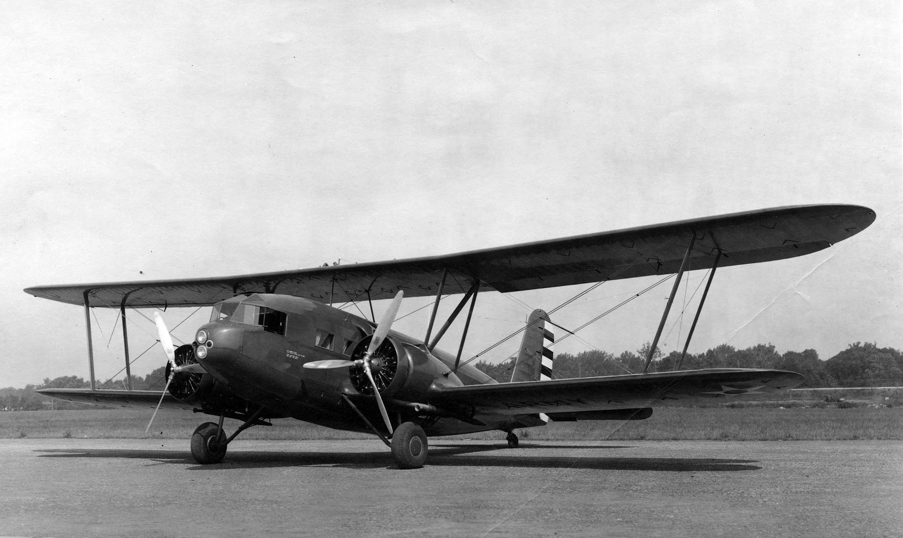 In the spring of 1933, the U.S. Army Air Corps tested the prototype Curtiss T-32 Condor II twin engine biplane transport. During the early 1930s, the Army General Staff still believed that a large biplane was more reliable than a monoplane aircraft, so two T-32 transports were purchased with the designation YC-30. The plane featured a retractable landing gear operated by electric motors making it among the first transports with retractable landing gear. The YC-30 also had many access panels designed for easy and speedy ground maintenance tasks. The basic structure of the YC-30 was a steel and aluminum alloy framework and fabric covering. The first YC-30 (S/N 33-320) was received by the Air Corps on 12 May 1933. Both planes were initially used as VIP transports and then as regular staff transports until withdrawn from service in 1938. (USAF text)